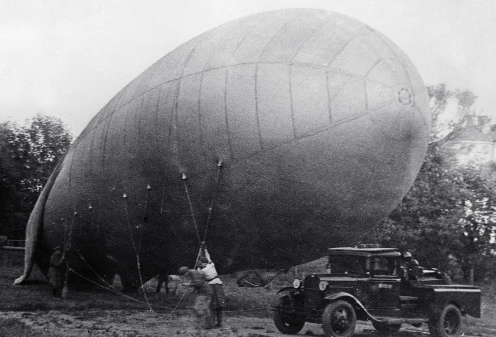 “Servicemen installing a barrage balloon”. Servicemen installing a barrage balloon in Moscow.